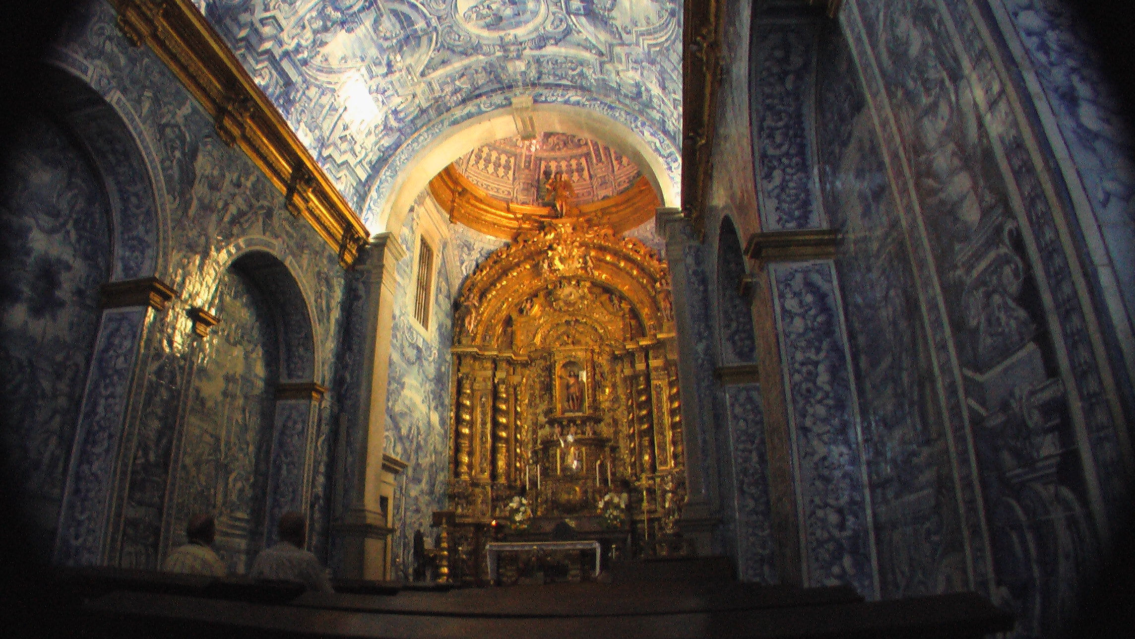 Church of São Lourenço (Almancil)